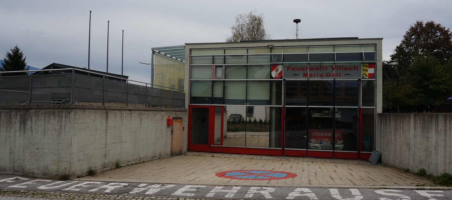 Fire department Villach, district Maria Gail, Carinthia, Austria, European Union